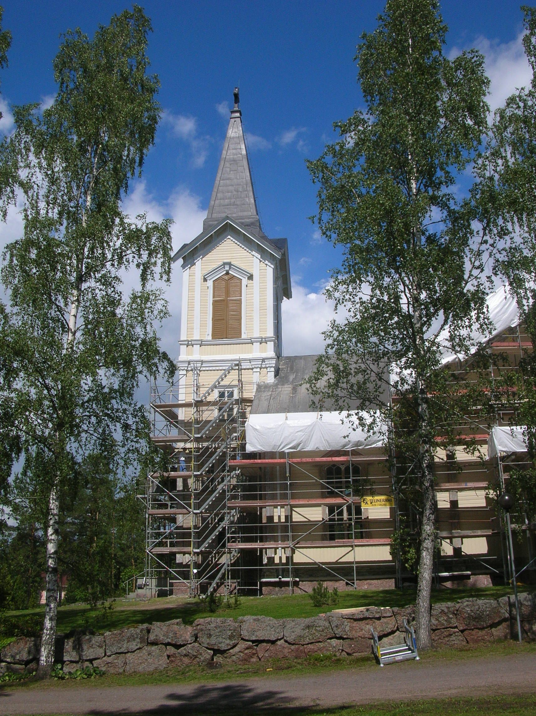 Liljendal Church under renovation. Liljendal, Finland